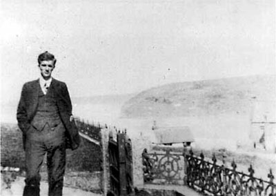 W.N.P. Barbellion (1889-1919)